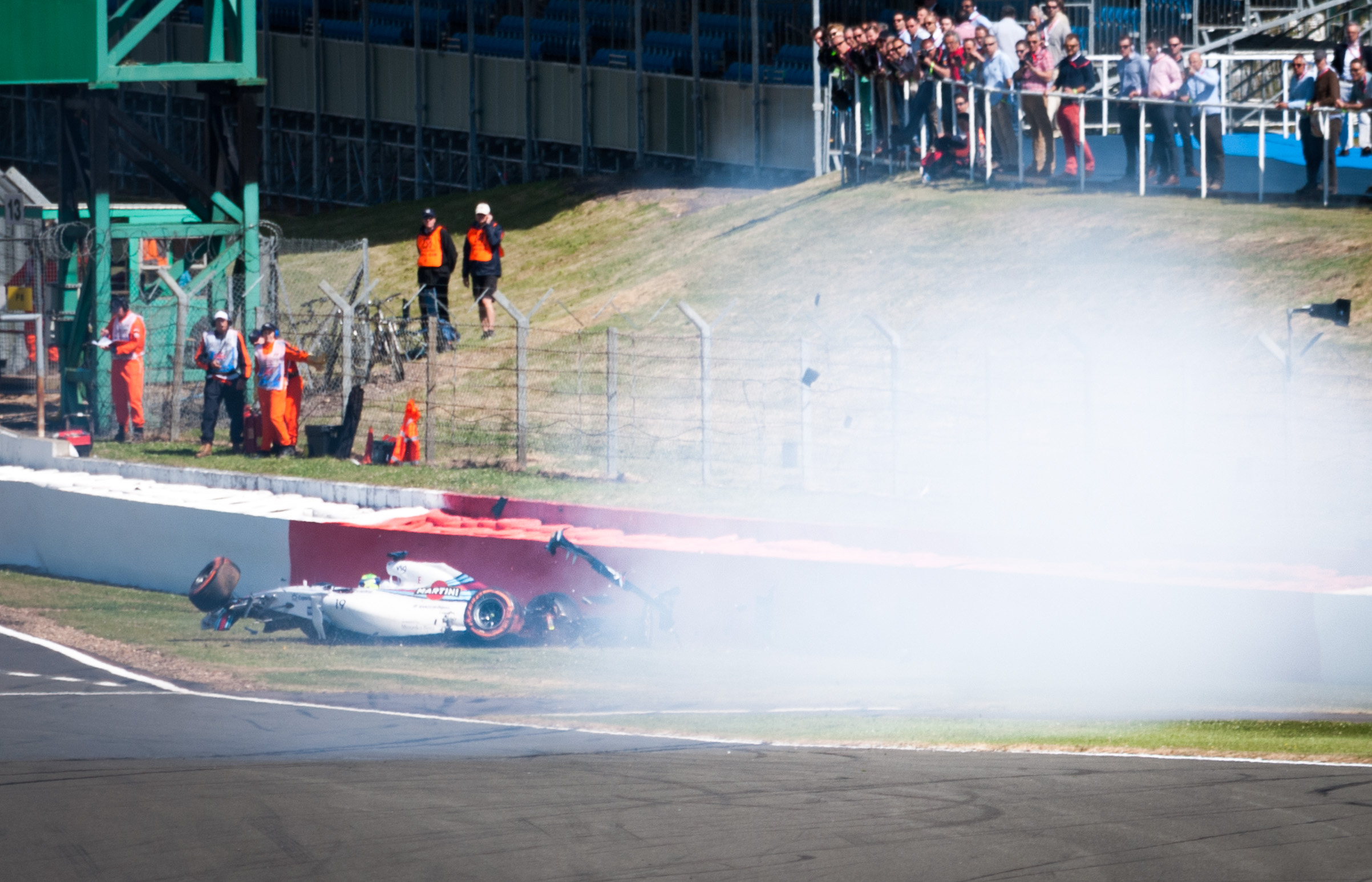 Felipe Massa crashes in Free Practice One at Stowe corner. 2014 British Grand Prix at Silverstone Circuit.